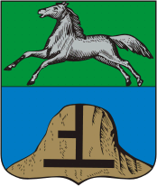 Coat of arms of Biysk, Altai Krai (1804).